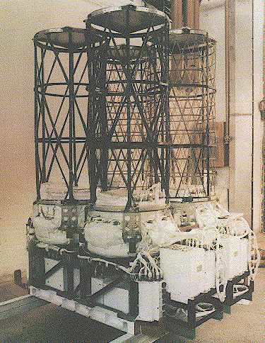 ART-P instrument on the soviet Granat spacecraft